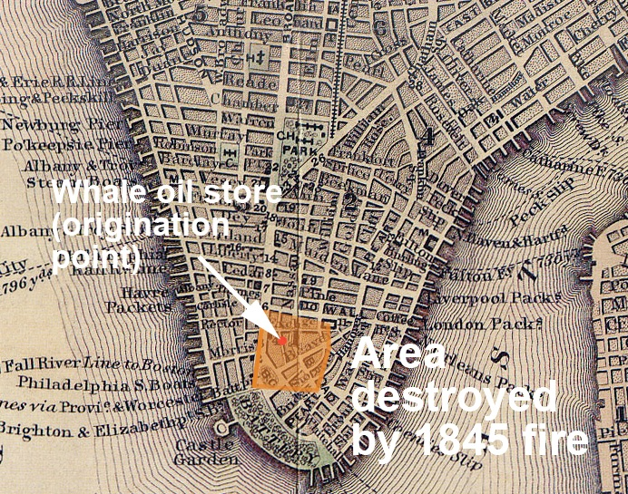 Shows the area of Lower Manhattan destroyed by the Great New York City Fire of 1845. Based on an 1847 map of Lower Manhattan.